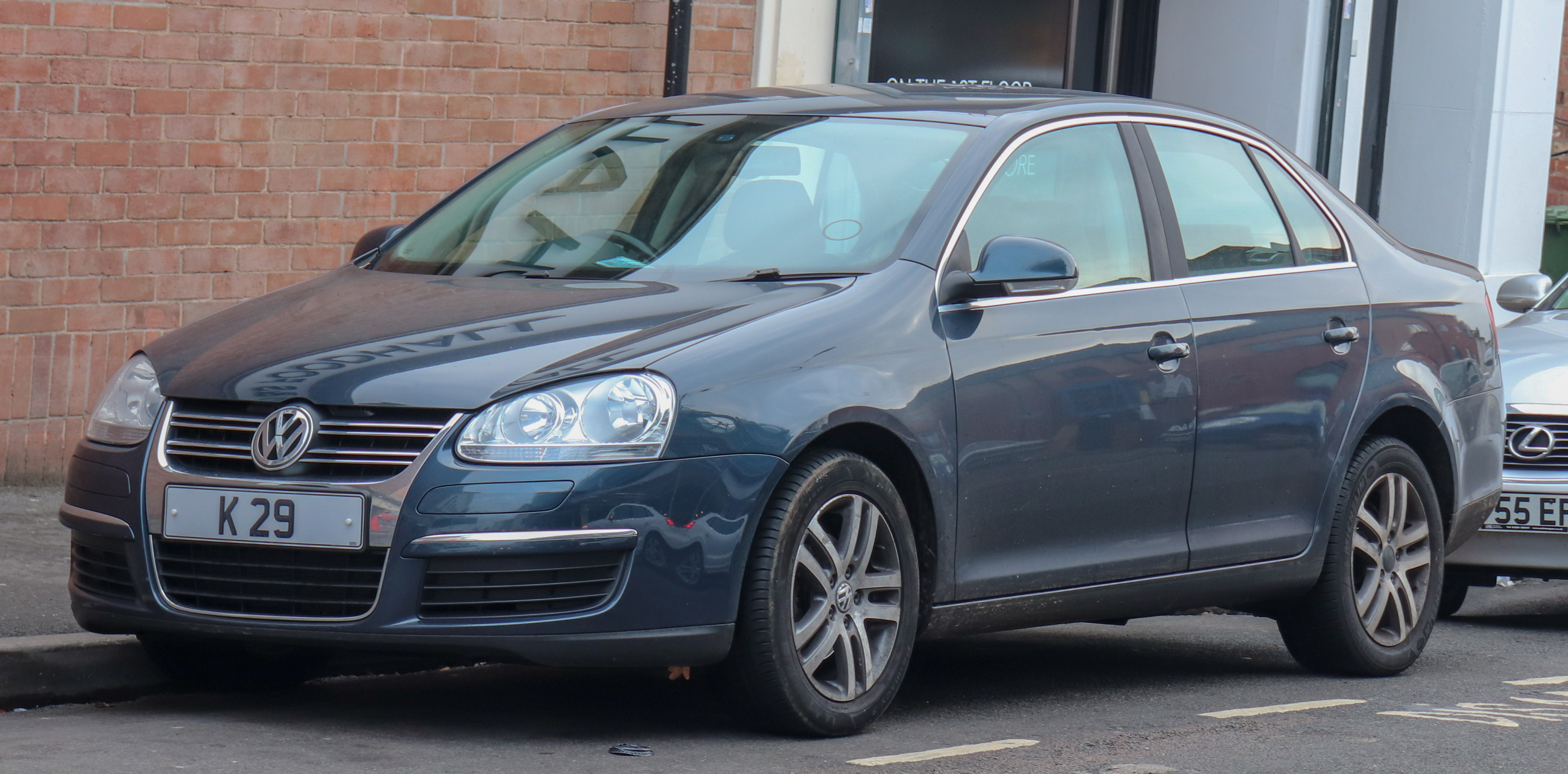 2007 Volkswagen Jetta SE TDi 105 Automatic 1.9 (3 Letter private plate) Taken in Leamington Spa